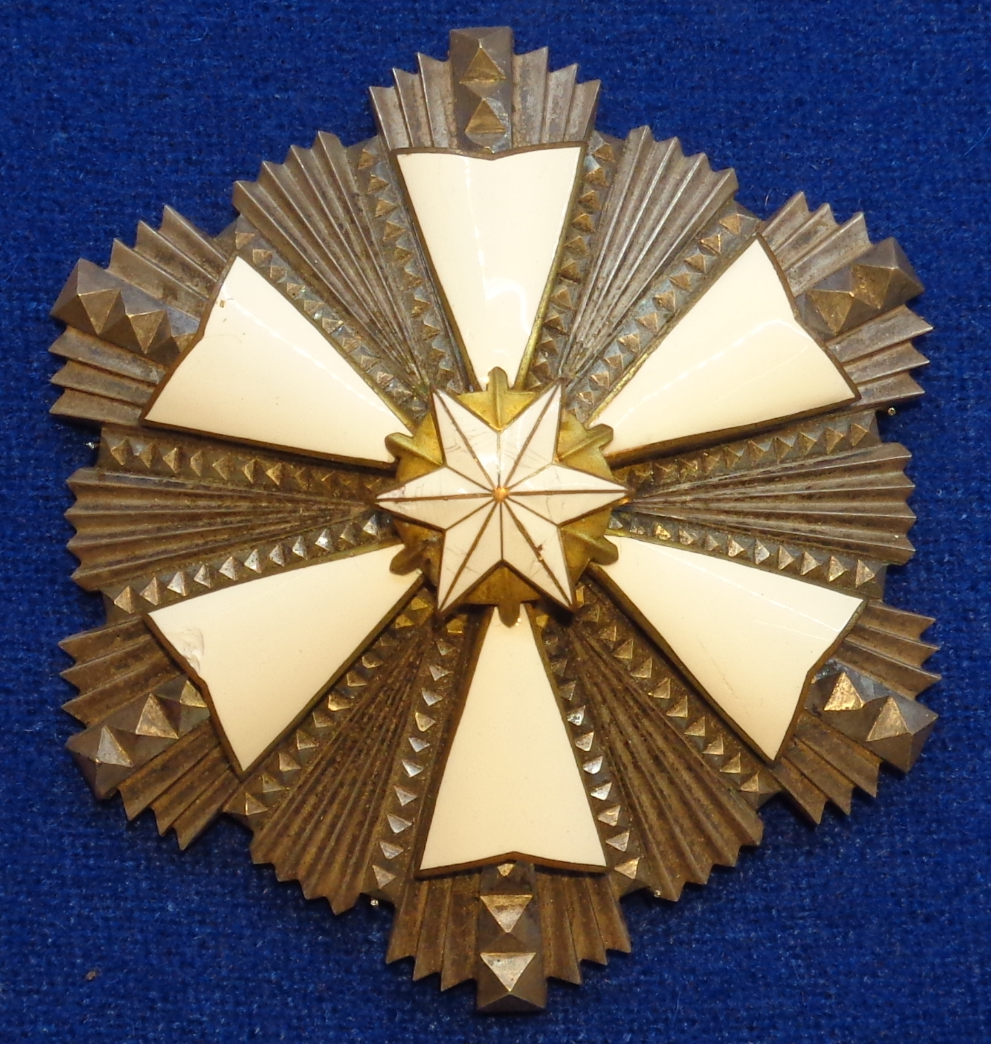 Order of the White Star 1st class, star, before 1940. Estonia. The exhibition of the Tallinn Museum of Orders of Knighthood, Estonia.